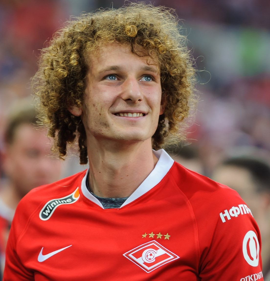 Alex Kral with FC Spartak Moscow in a game against FC Zenit Saint-Petersburg